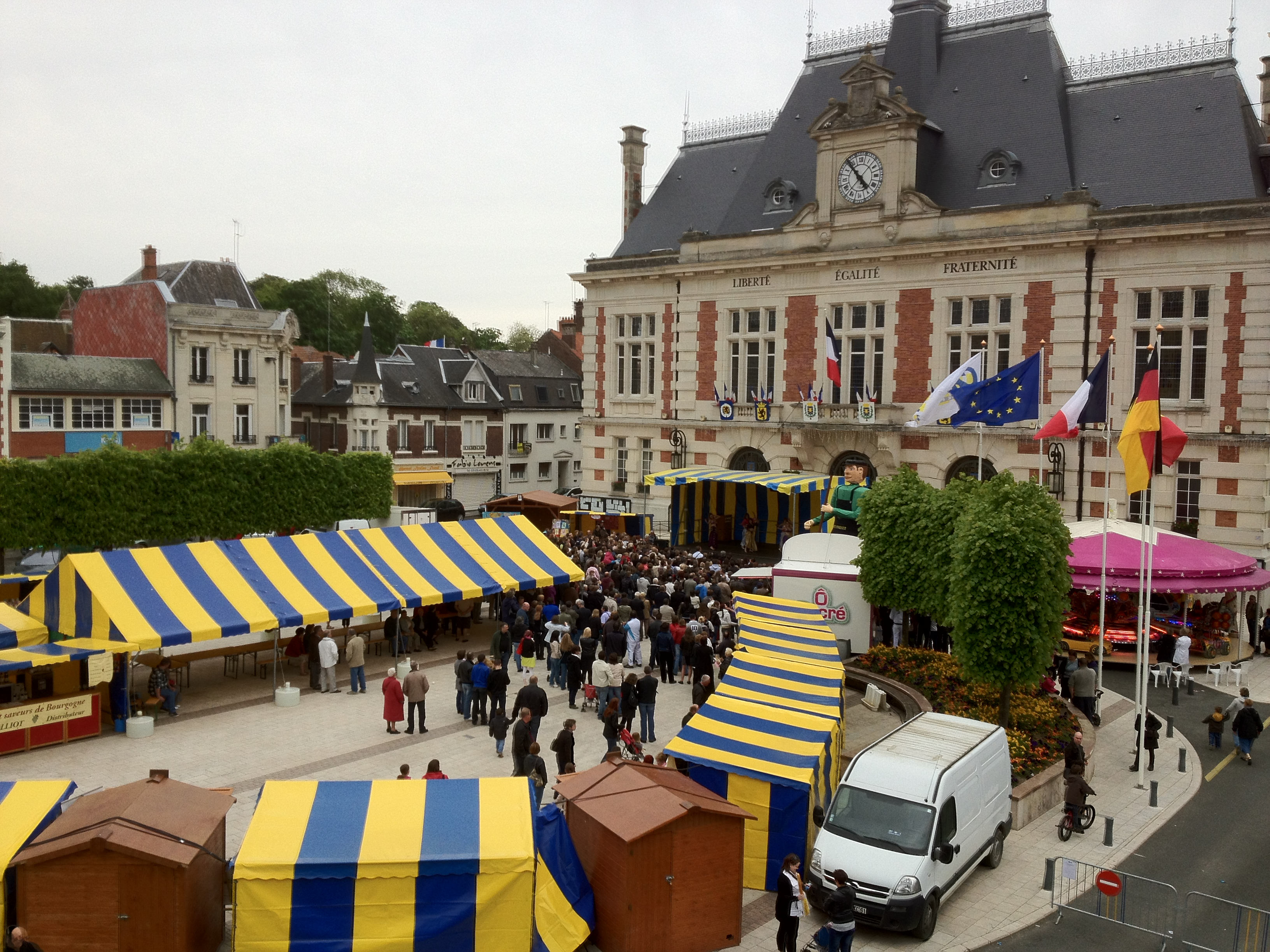 Chauny Town Hall during the Rabelais days